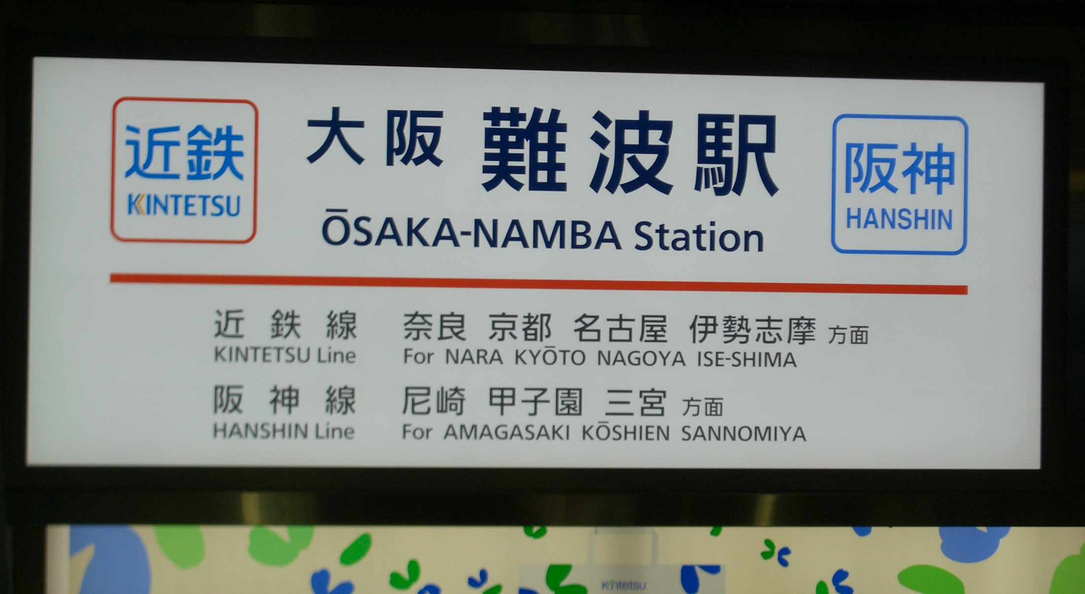 Kintetsu and Hanshin Osaka-namba Station